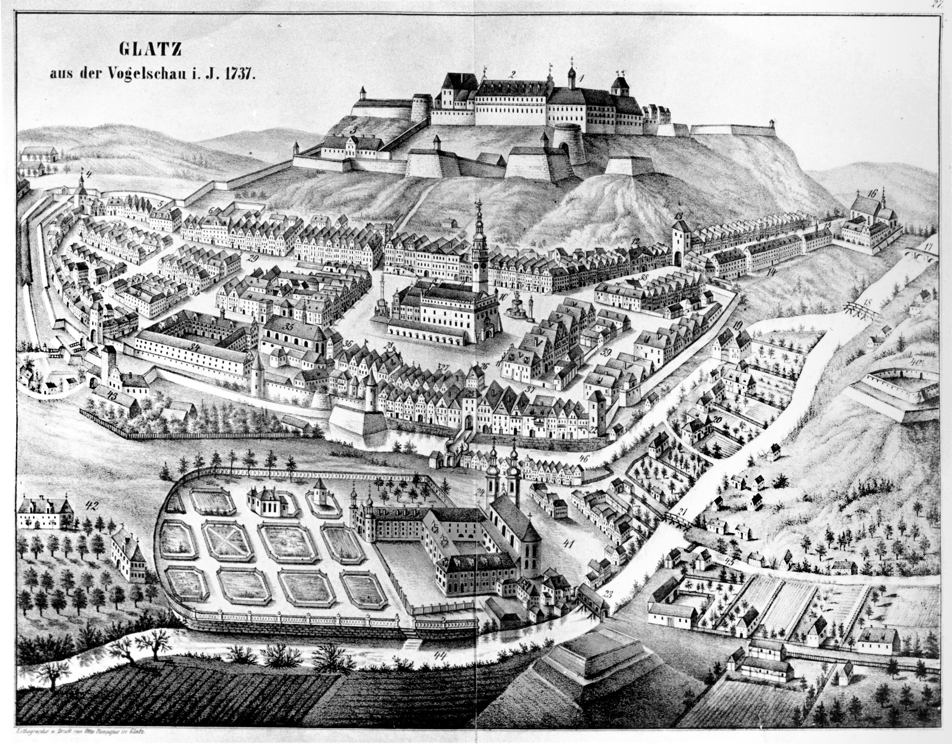 Town of Kłodzko from south in the year 1737 after the artwork by Friedrich Bernhard Werner.